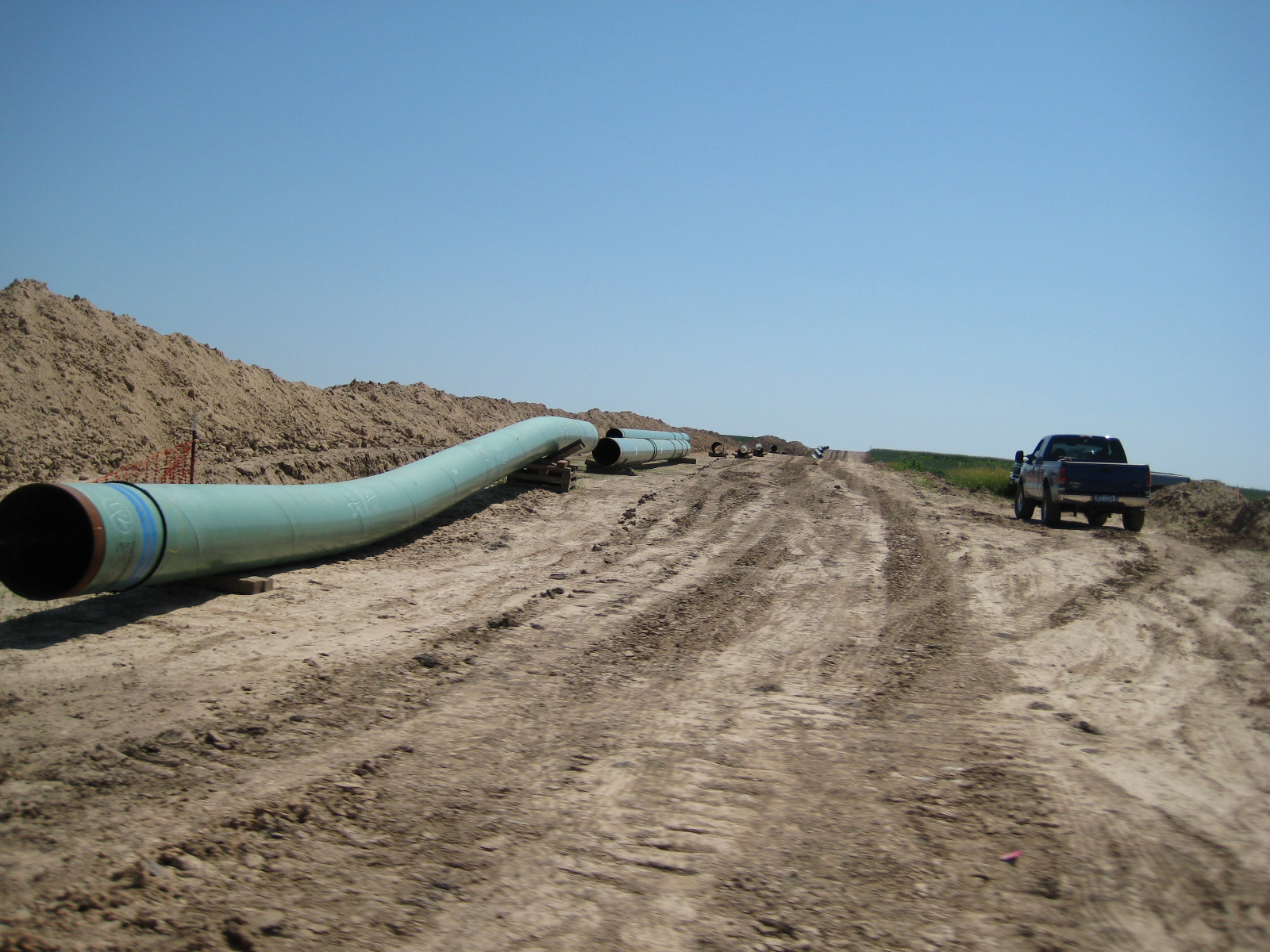 Pipes for the Keystone Pipeline